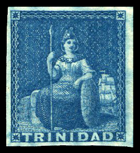 First postage stamp series of Trinidad. Scott#3a.